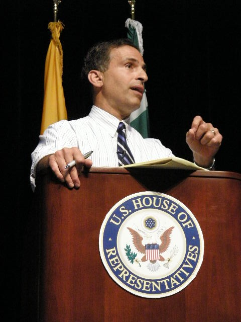 This is Utica-area Congressman Mike Arcuri at a town hall meeting on healthcare. The picture was taken by Matt Ryan at Mohawk Valley Community College.